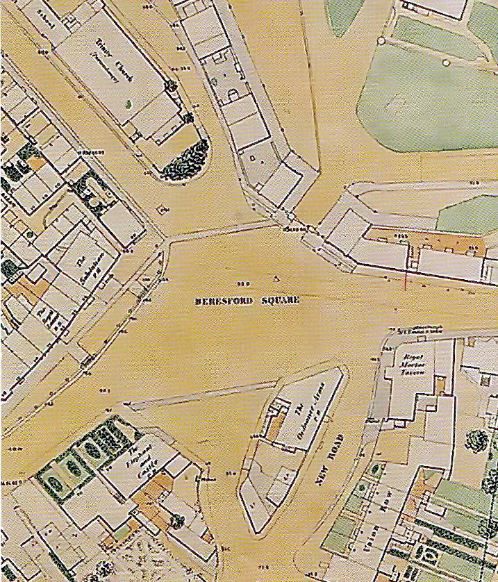 View of Beresford Square in Woolwich, then in Kent, now in southeast London, UK.